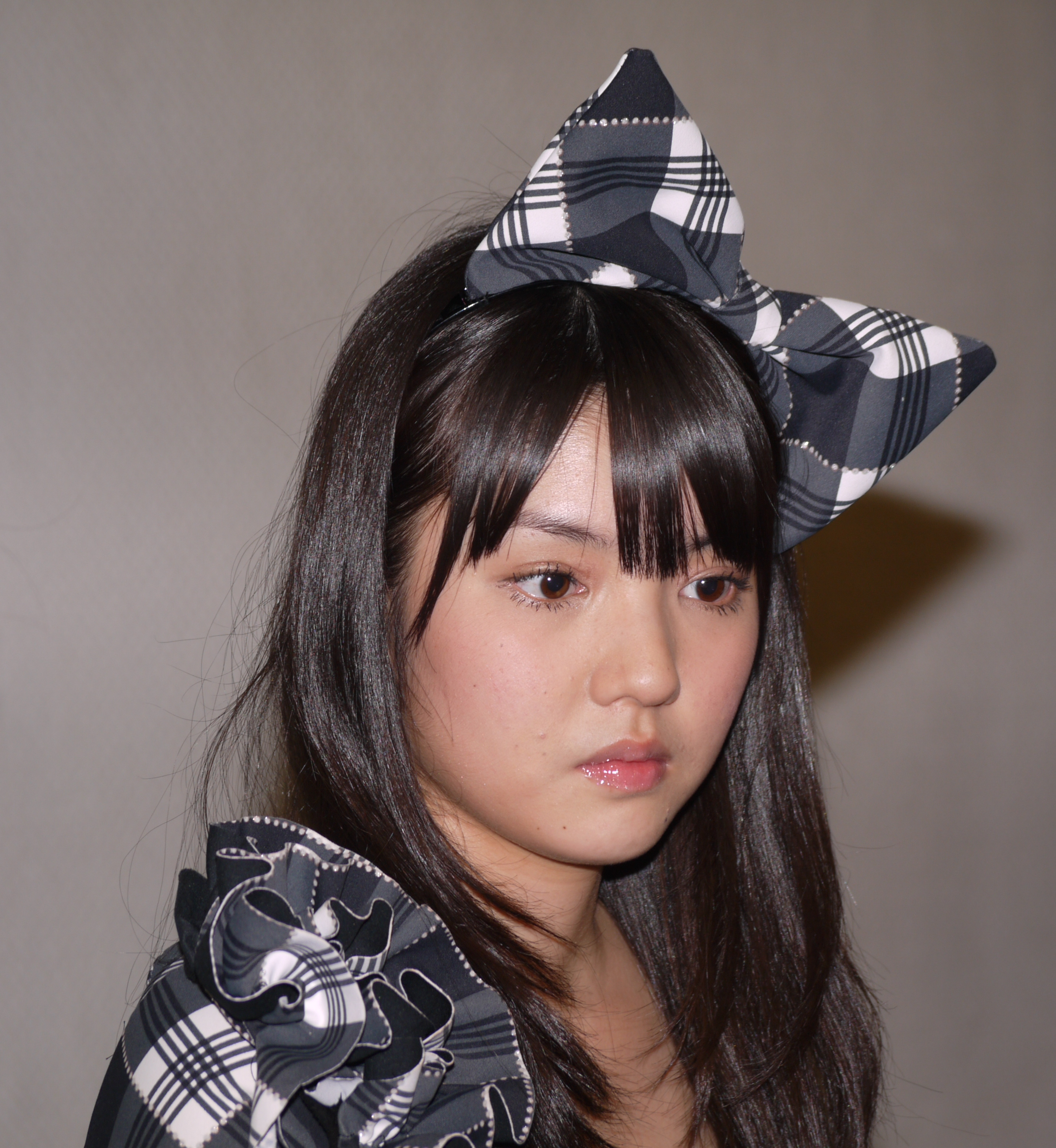 Japan Expo Festival, 11th impact